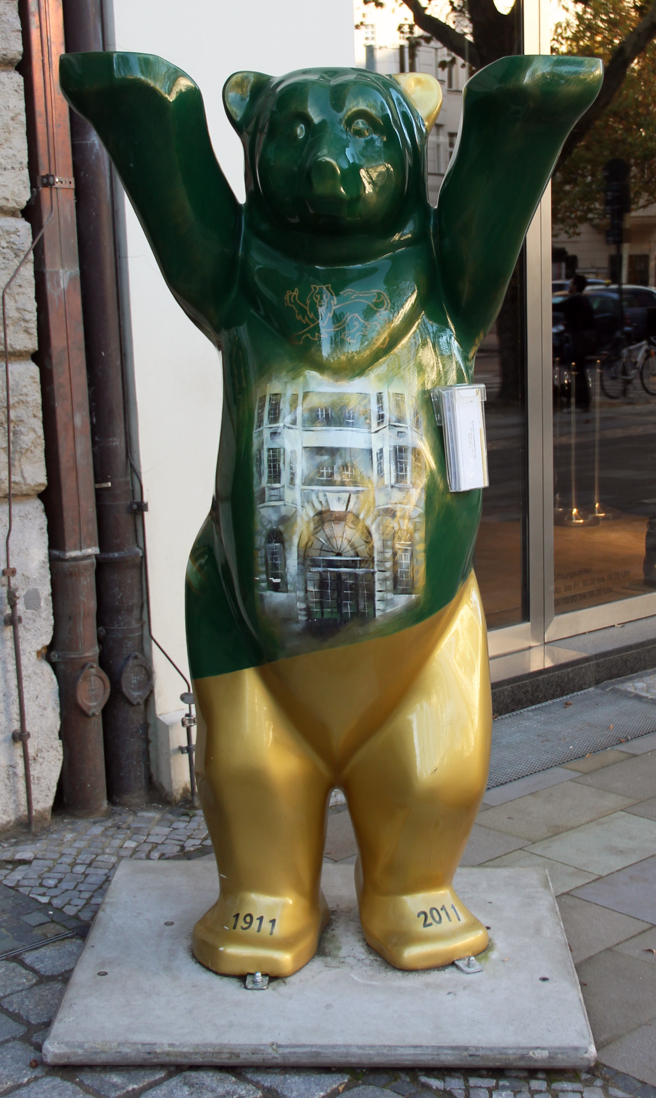 Sculpture, Buddy Bär "Cumberland", Kurfürstendamm 193, Berlin-Charlottenburg, Germany